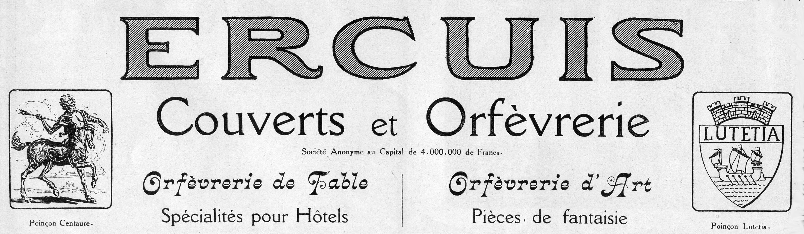 Ercuis advertisement of 1924